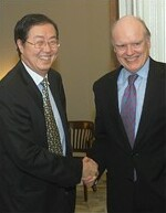 U.S. Treasury Secretary John W. Snow greeted Central Bank Governor Zhou Xiaochuan of China for a meeting yesterday (photo, left) preceding meetings of the G7 finance ministers and central bank governors today, and the IMF and World Bank this weekend, in Washington, D.C.